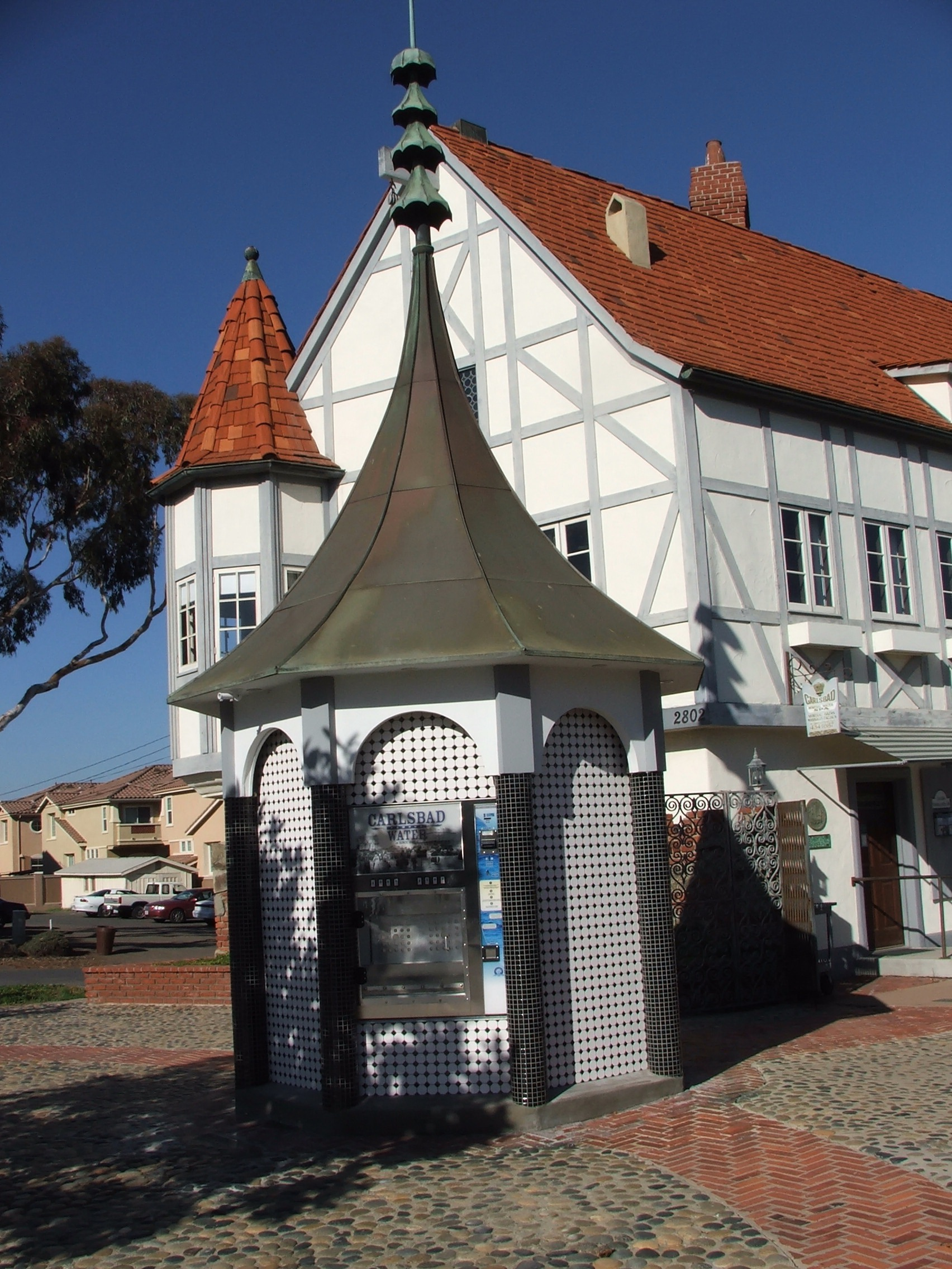 Center of the city Carlsbad in California